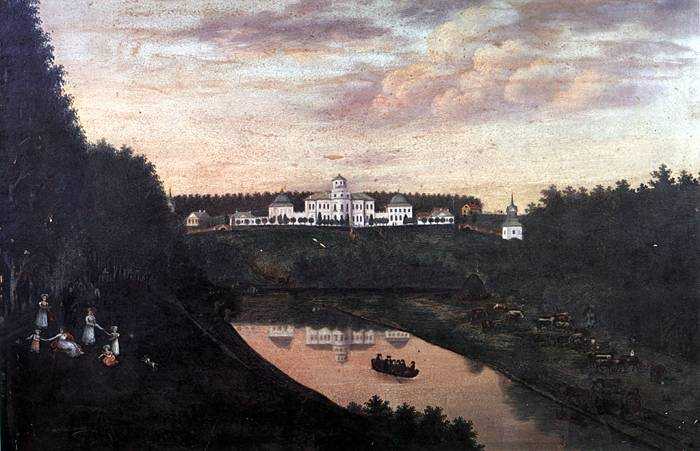 Mikhailovskoye Hall in the Governorate of Moscow